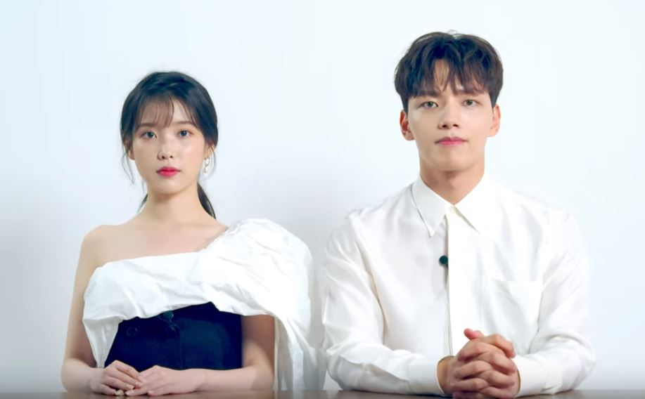 IU and Yeo Jin Goo for Marie Claire